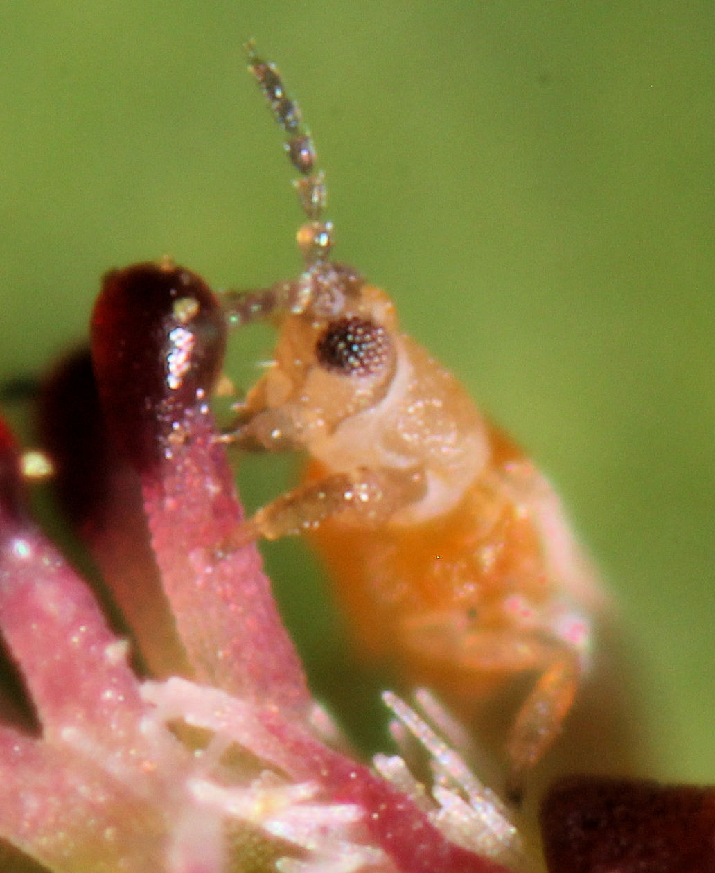 Thrips (probably Frankliniella occidentalis) on a rattlesnake sandmat (Euphorbia albomarginata) flower pistil. The thrips stylet that it uses to feed through can be seen in this image inserted into the pistil. Identification: It was identified to the Thripinae subfamily by the experts. The species level ID is probable based on a comparison with other Frankliniella occidentalis on the internet Location: Fullerton, CA, USA